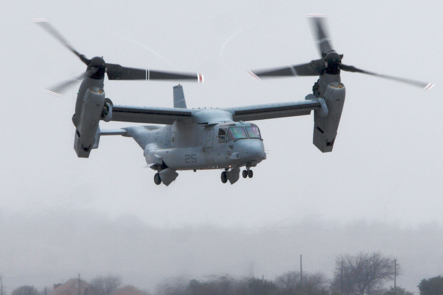 Bell Helicopter V-22 taking off from Alliance Airport in Fort Worth, Texas.